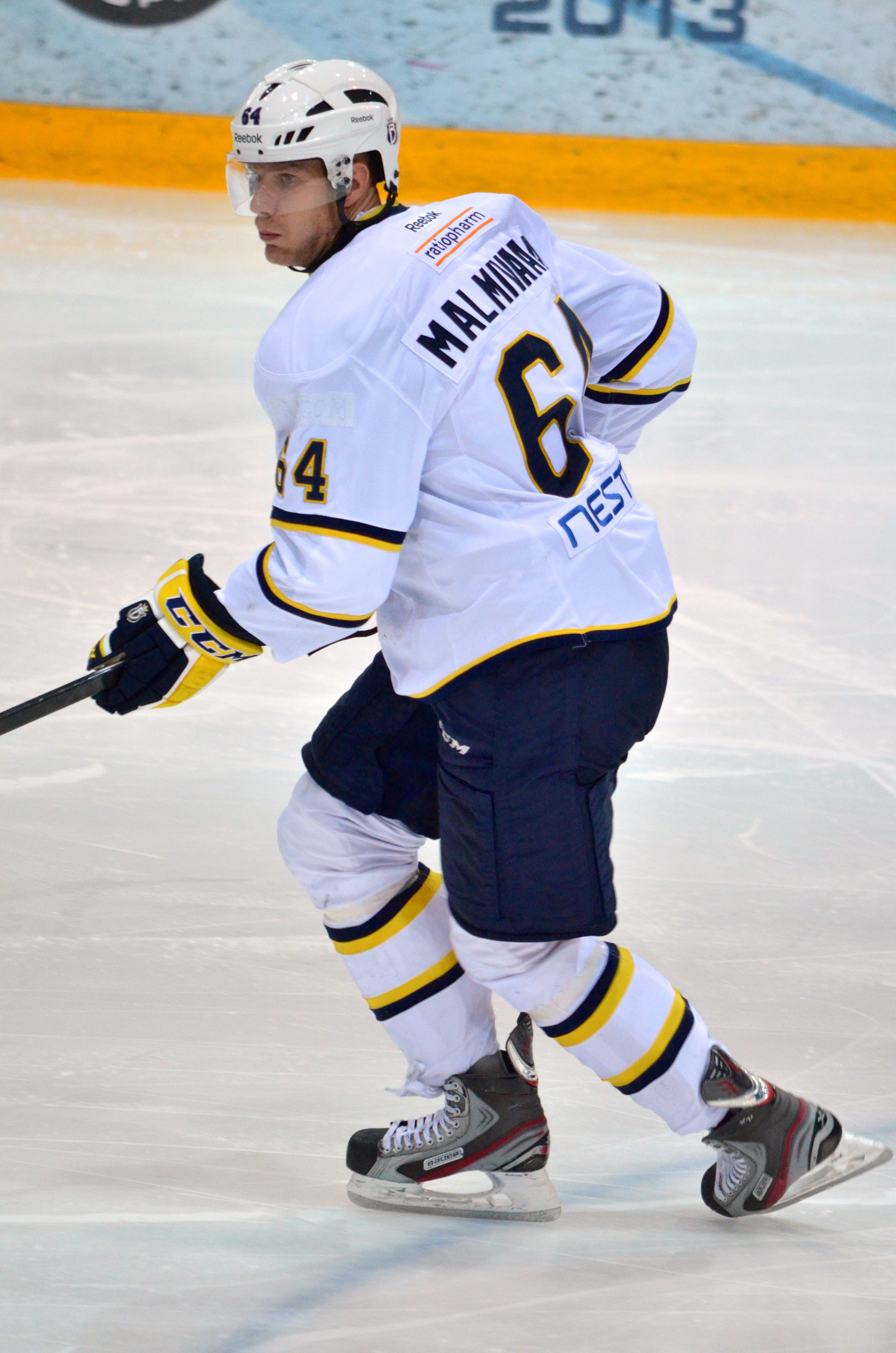 Finnish ice hockey defenseman Olli Malmivaara playing for Espoo Blues in an SM-liiga preseason game against Tampere Ilves in Tampere, Finland.